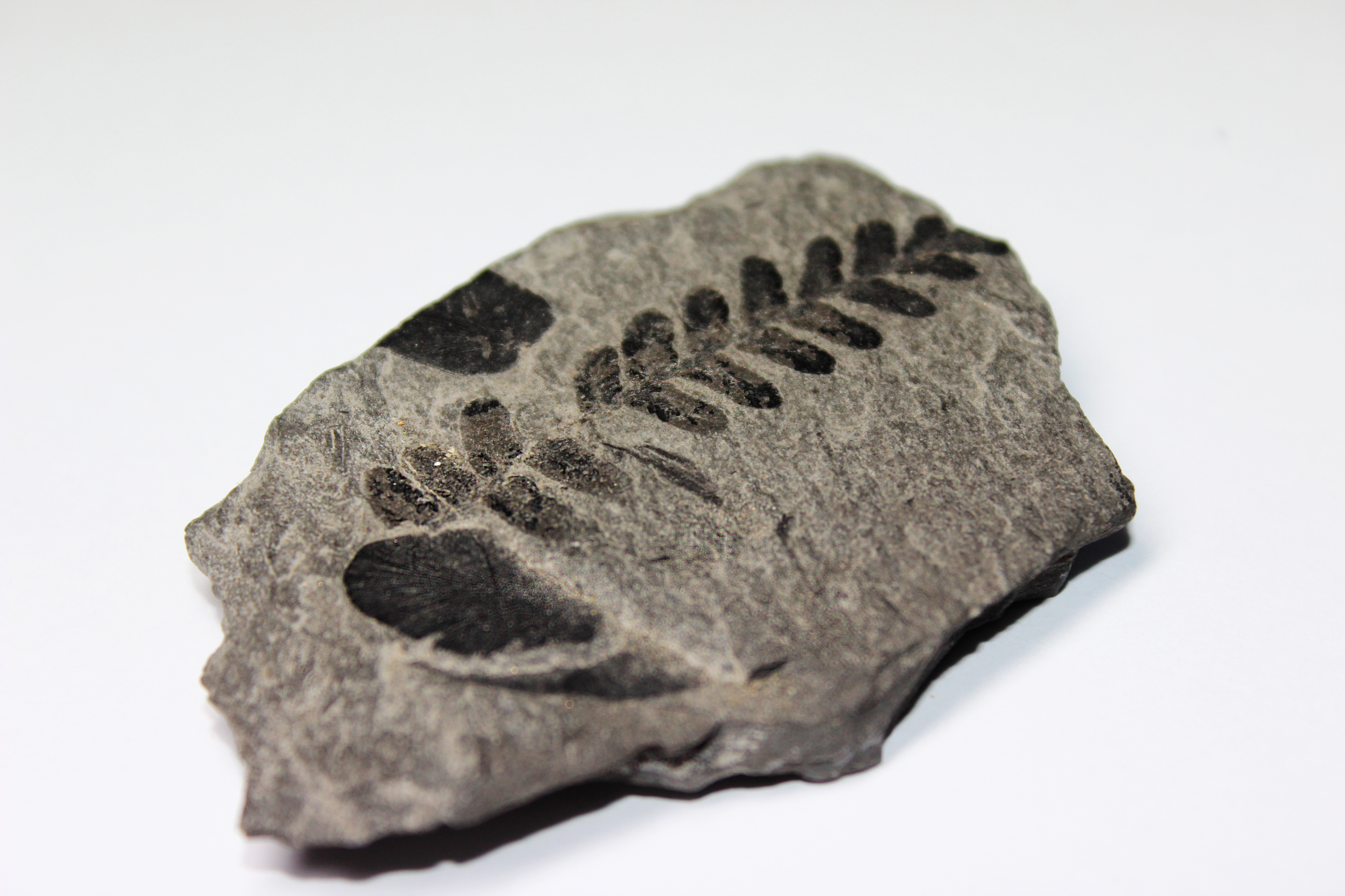 Prints of ancient fern leaves on the rock. Cladophlebis Ferns form kind Cladophlebis. Was found in mine in Luhansk region